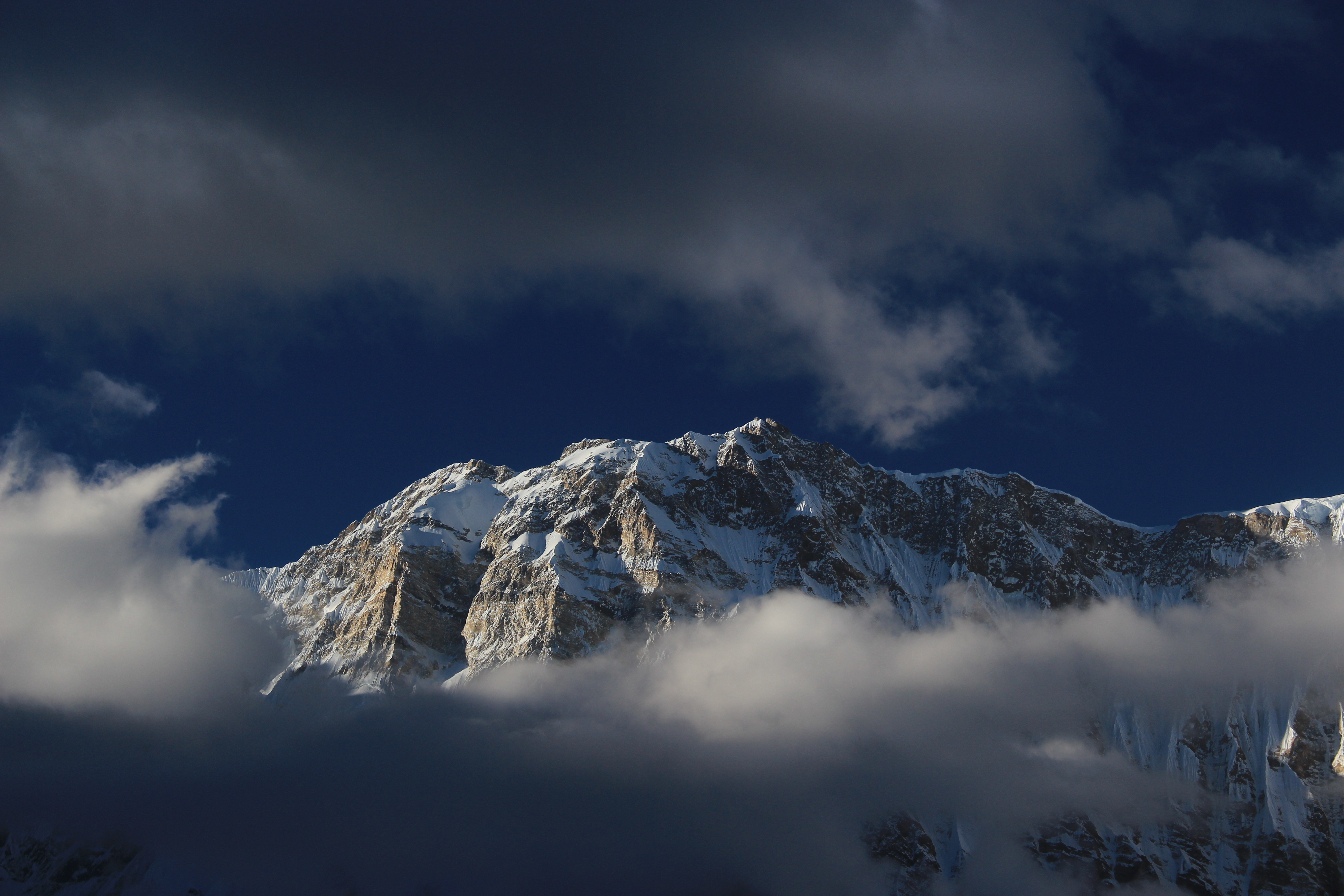 Mt Annapurna